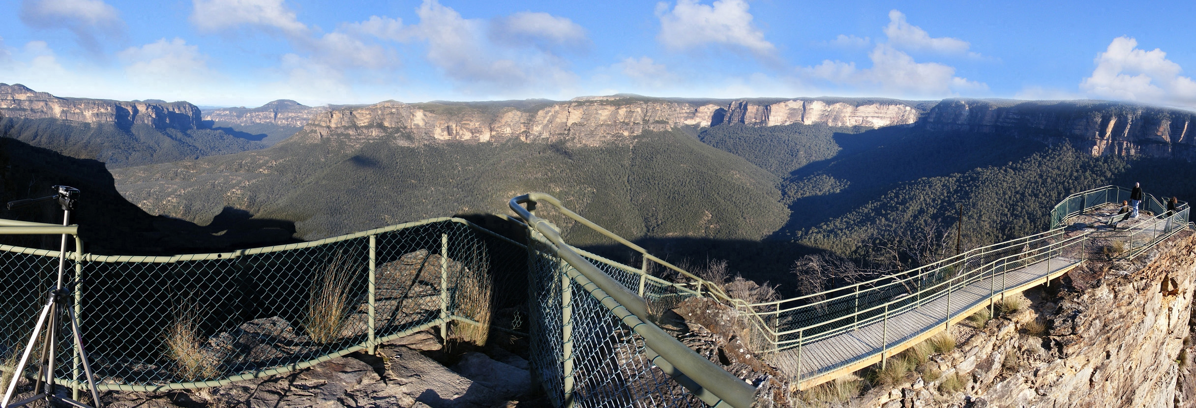 Panorama of the Blue Mountains from Pulpit Rock, somewhere around the Blackheath area.